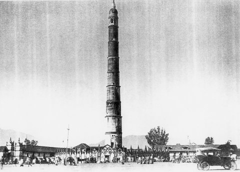 Kathmandu.